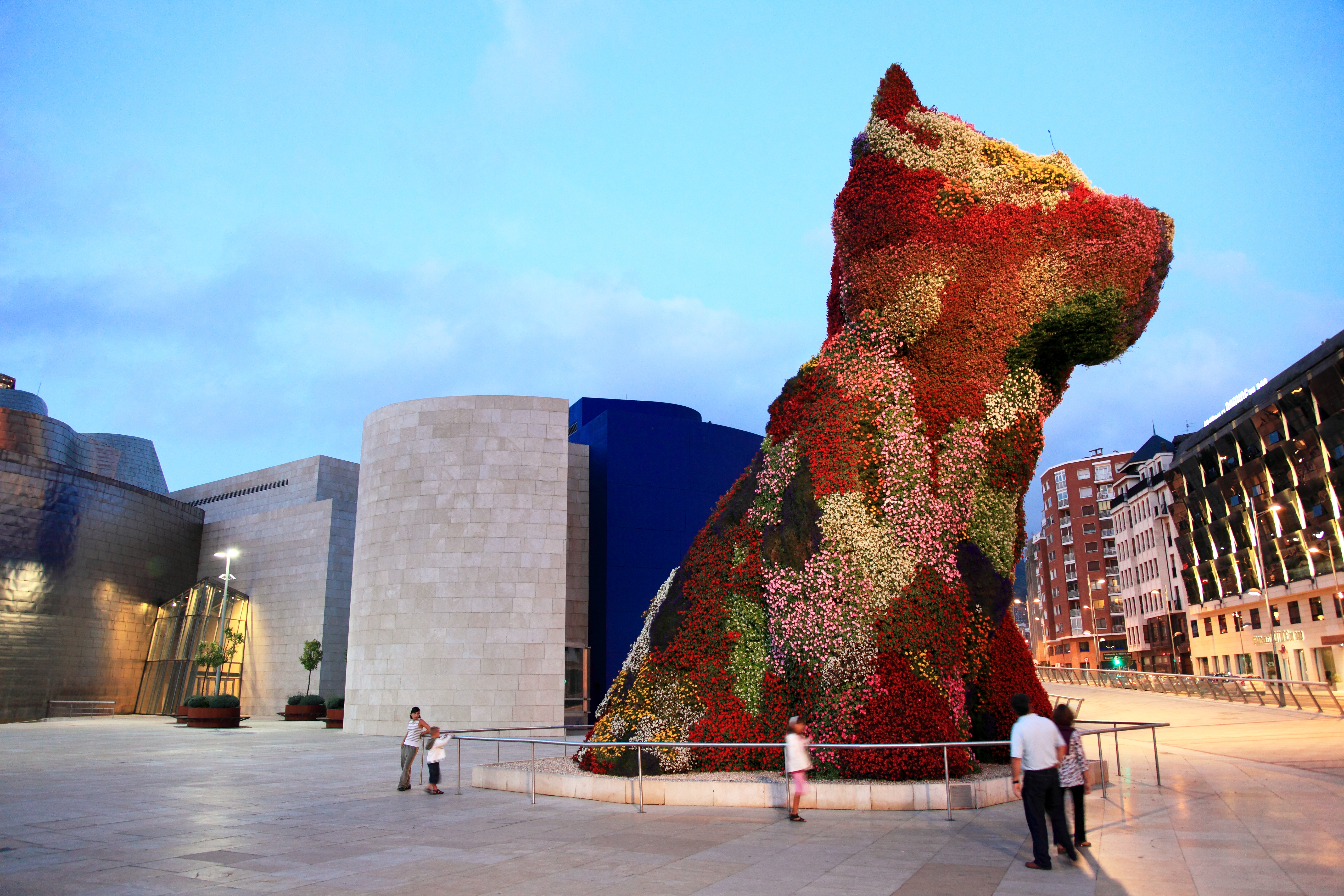 Jeffrey "Jeff" Koons (born January 21, 1955) is an American artist. He was commissioned in 1992 to create a piece for an art exhibition in Bad Arolsen, Germany. The result was Puppy, a forty-three feet (12.4 m) tall topiary sculpture of a West Highland White Terrier puppy, executed in a variety of flowers on a steel substructure. In 1995, the sculpture was dismantled and re-erected at the Museum of Contemporary Art on Sydney Harbour on a new, more permanent, stainless steel armature with an internal irrigation system. The piece was purchased in 1997 by the Solomon R. Guggenheim Foundation and installed on the terrace outside the Guggenheim Museum Bilbao. Before the dedication at the museum, an Euskadi Ta Askatasuna (ETA) trio disguised as gardeners attempted to plant explosive-filled flowerpots near the sculpture, but was foiled by Basque police officer Jose María Aguirre, who then was shot dead by ETA members. Currently the square in which the statue is placed bears the name of Aguirre. In the summer of 2000, the statue travelled to New York City for a temporary exhibition at Rockefeller Center (